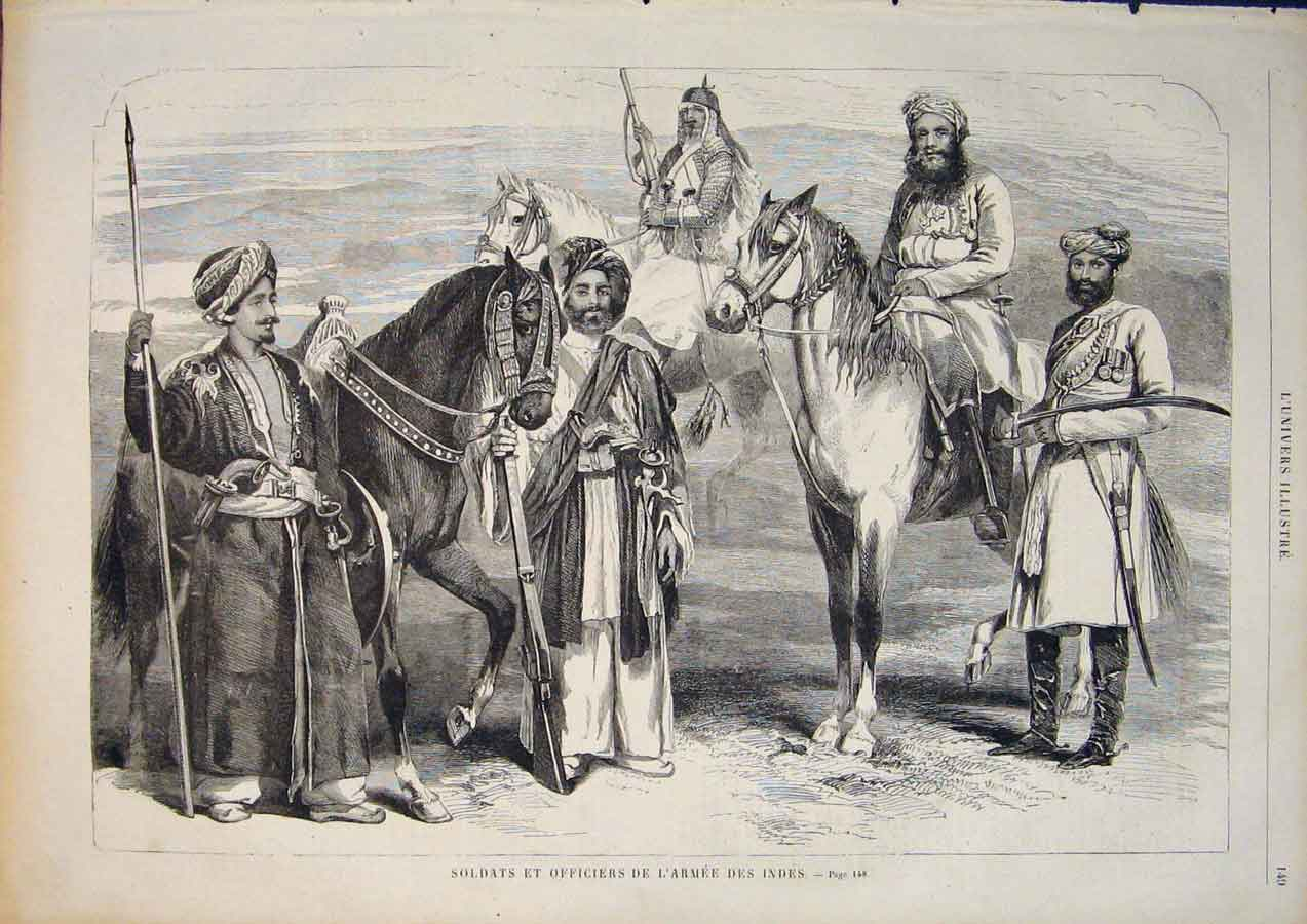 "Soldiers and officers of the Indian army," from a French journal, l'Univers Illustre, 1858